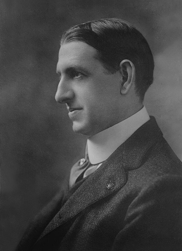 Bain News Service,, publisher. Walker Whiting Vick [no date recorded on caption card] 1 negative : glass ; 5 x 7 in. or smaller. Notes: Title from unverified data provided by the Bain News Service on the negatives or caption cards. Forms part of: George Grantham Bain Collection (Library of Congress). Format: Glass negatives. Repository: Library of Congress, Prints and Photographs Division, Washington, D.C. 20540 USA, General information about the Bain Collection is available at Persistent URL: Call Number: LC-B2- 2757-6